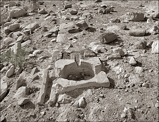 Petra. Tanks with settling and redistribution of water.